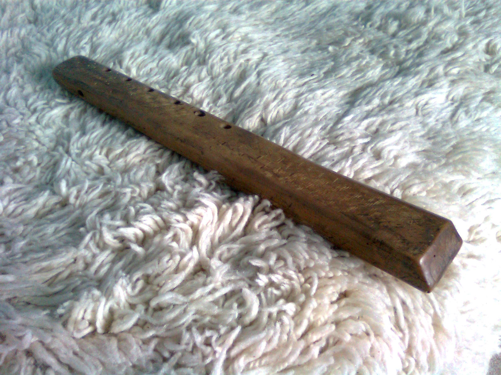 The Dvoyanka is a type of dual-chambered Bulgarian flute. One chamber has six holes for producing the melody. The other chamber produces a drone.